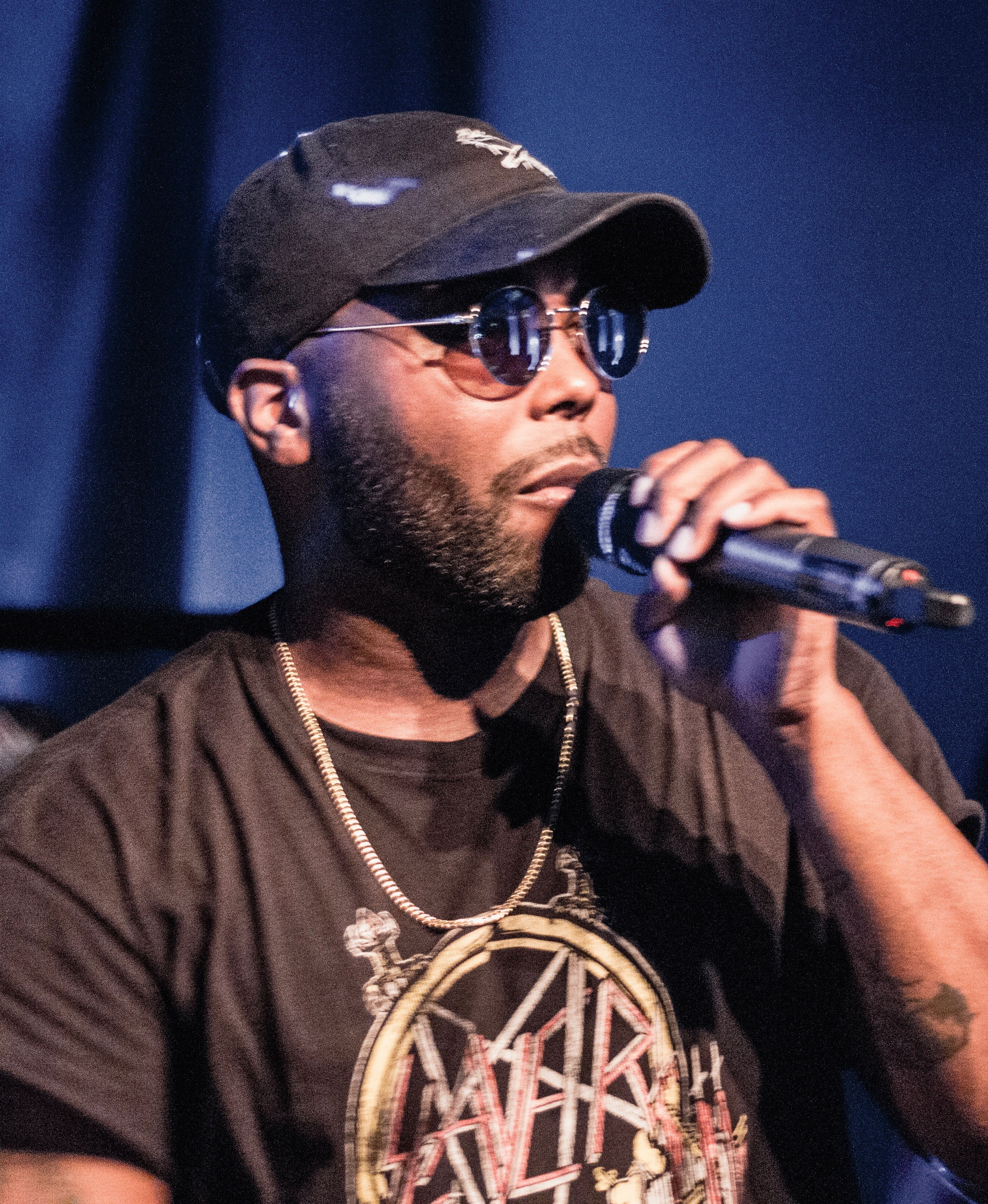 Shot at The Studio Bar on June 25, 2017 Photography for the Come Up Show by (Mac Downey, @mac.all.mighty)